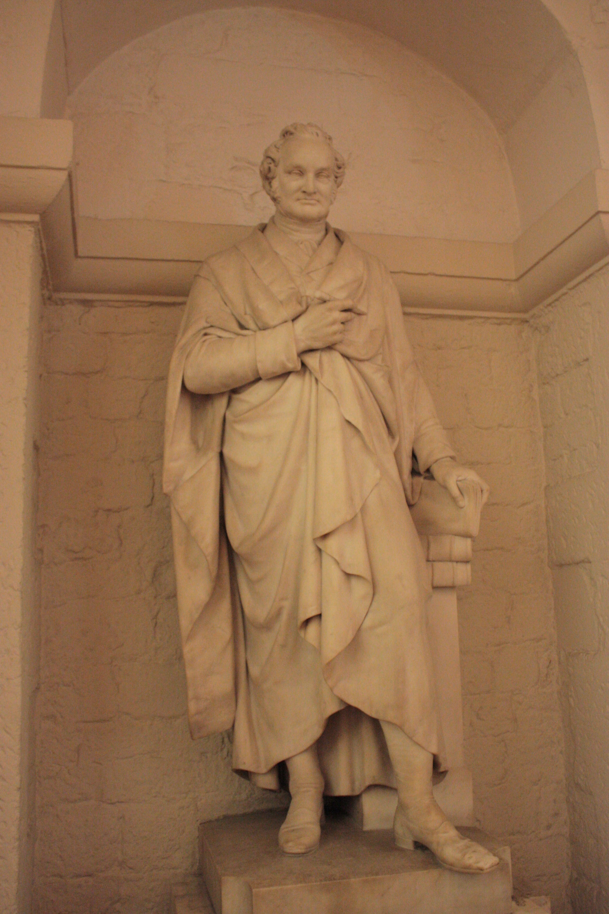 Memorial to English historian Henry Hallam in St Paul's Cathedral, London, England, UK.